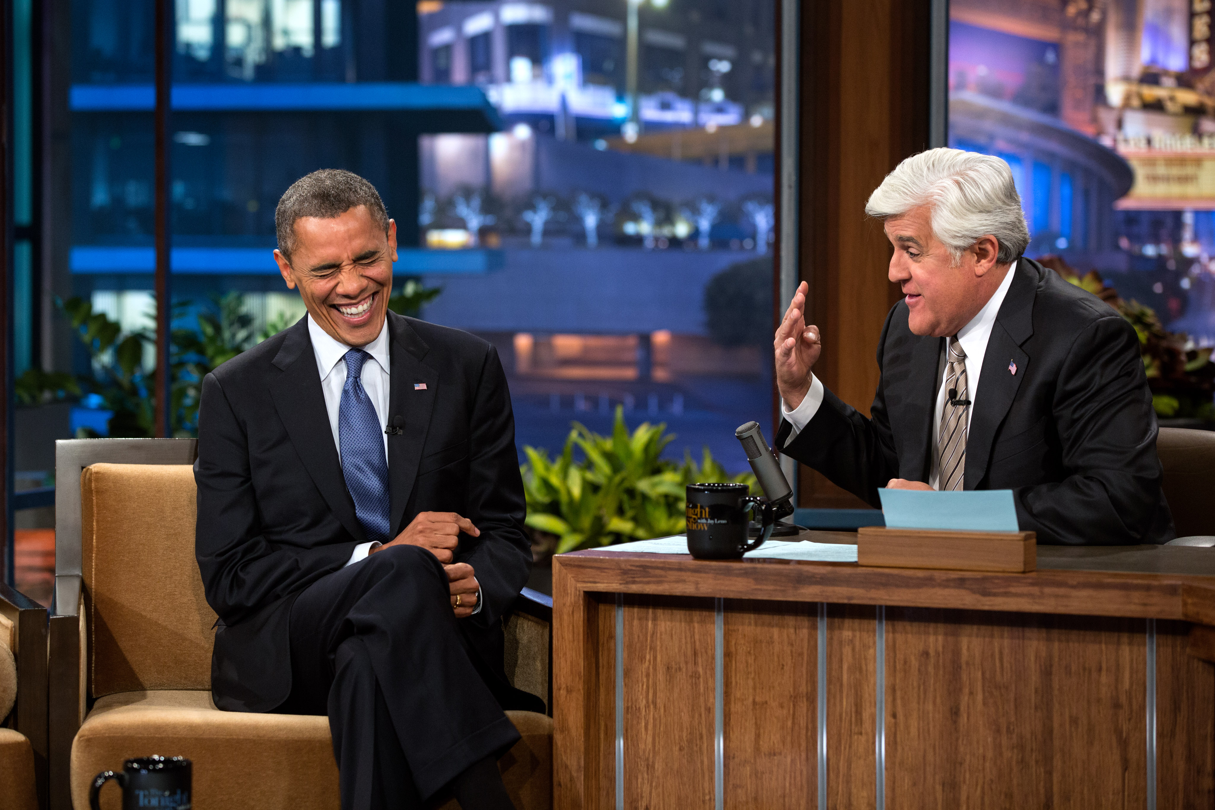 President Barack Obama participates in an interview with Jay Leno during a taping of "The Tonight Show with Jay Leno" at the NBC Studios in Burbank, Calif., Oct. 24, 2012. (Official White House Photo by Pete Souza)